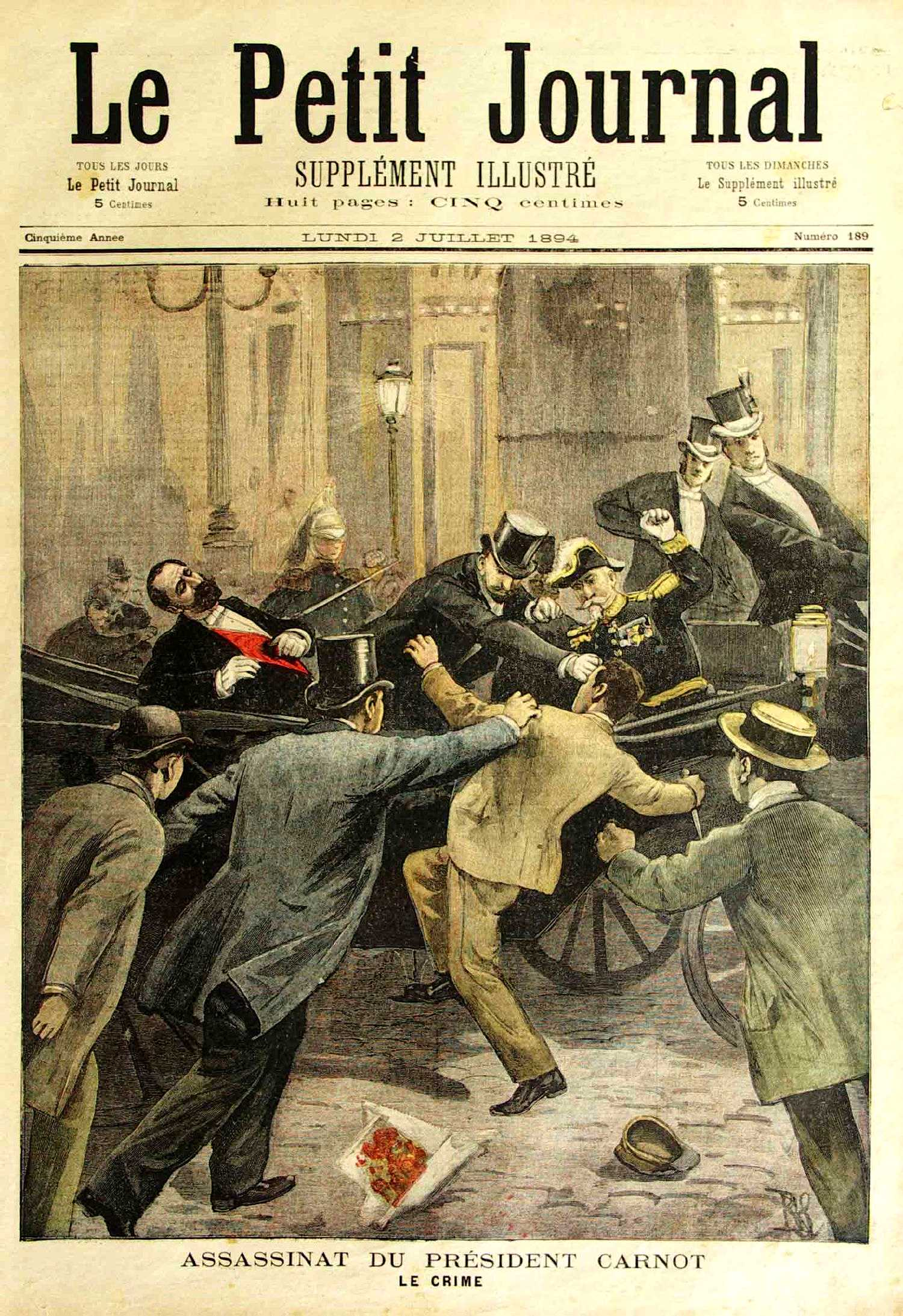 Caption of title of Le petit Journal